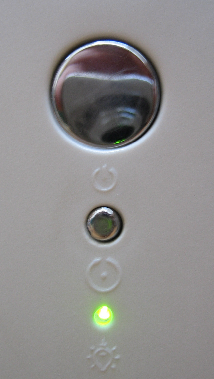 Power/reset buttons and power LED on computer case